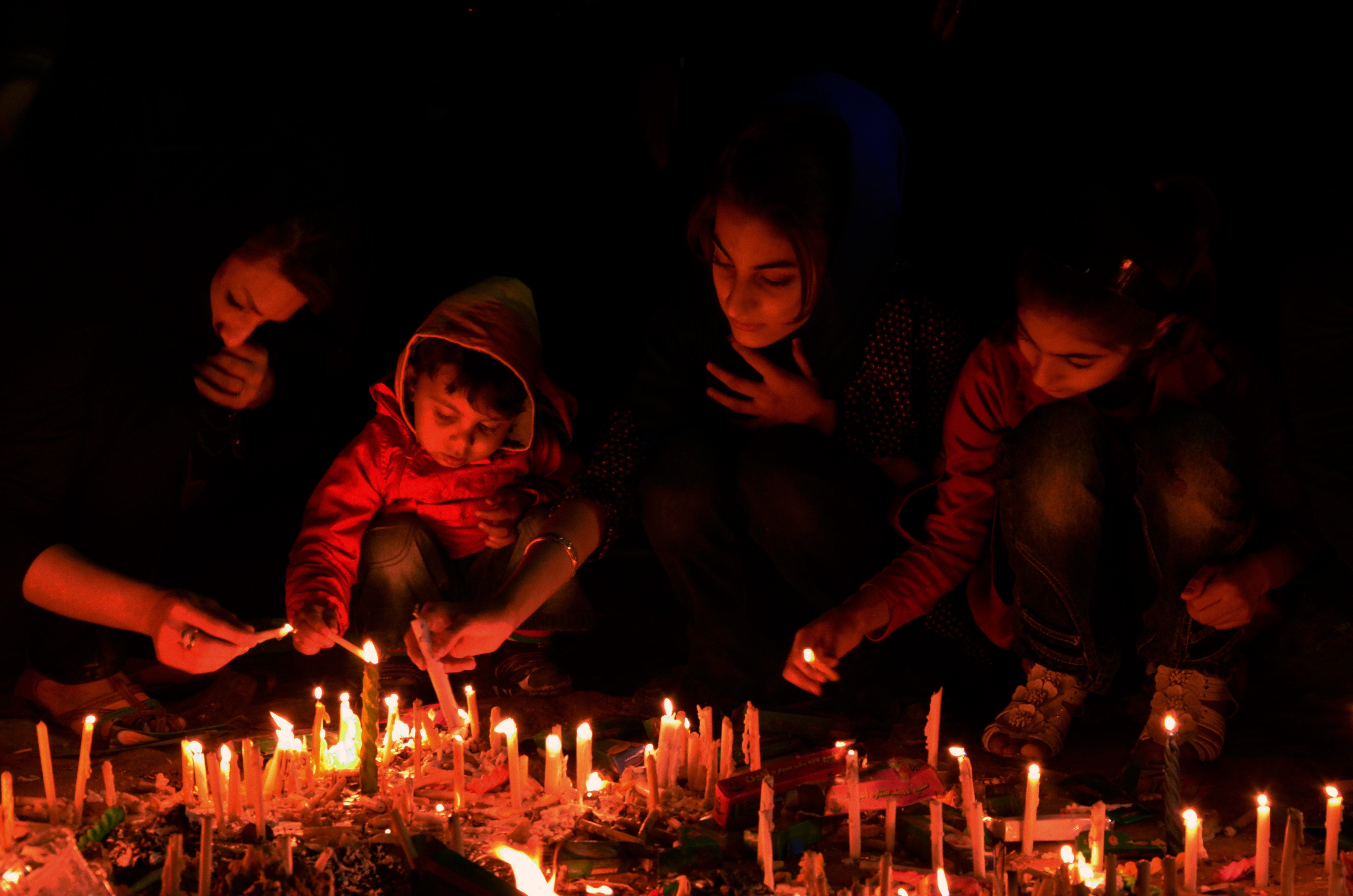 Mourning of Muharram is held in majority of cities and villages in Iran by Shia Muslims annually. Although all sort of ceremonies are performed for Imam Hossein and his followers martyrdom remembrance, they have different styles and rules referring to various cultures.